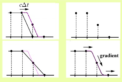 This picture shows the way numerical diffusion occurs.